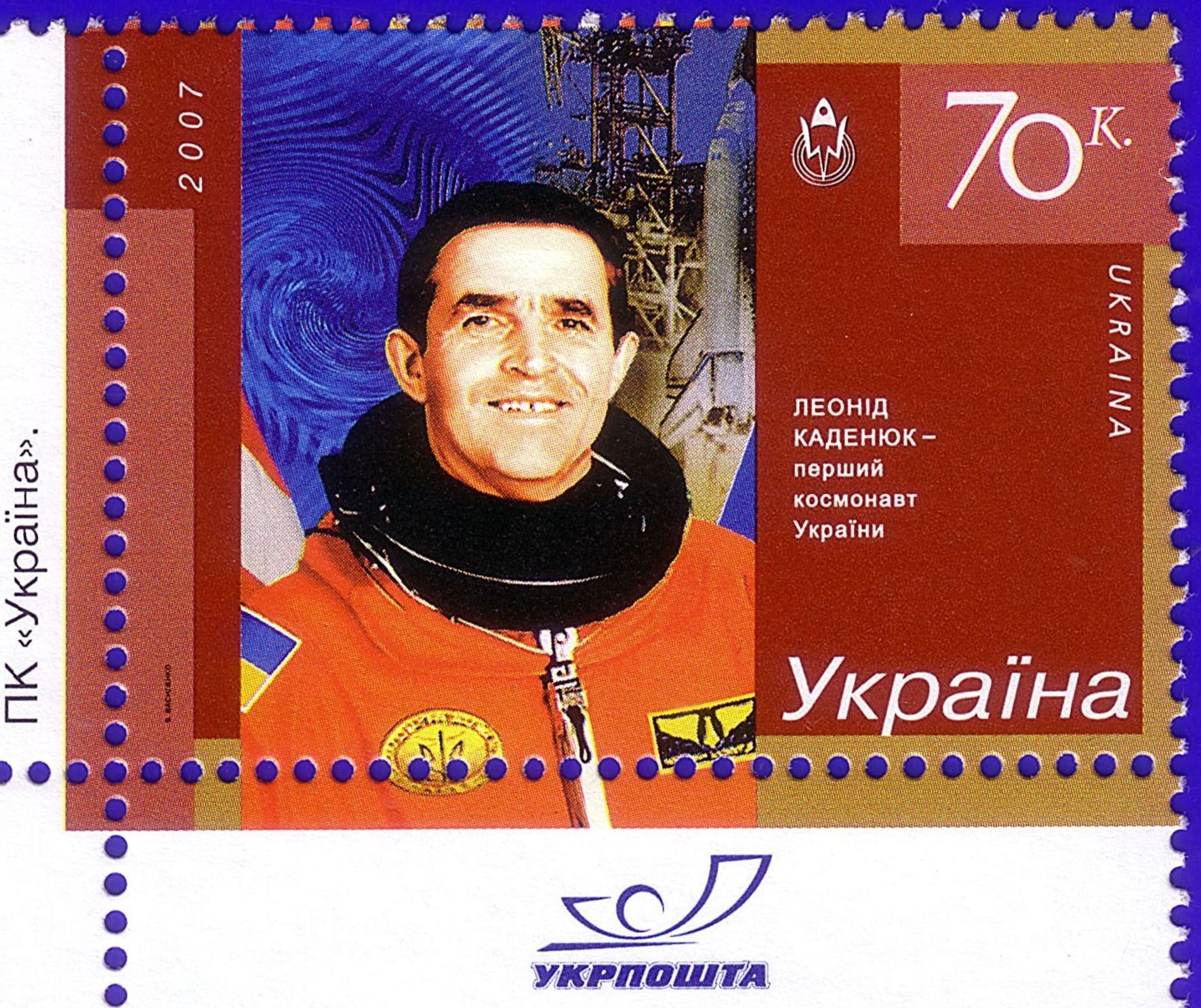 Stamp of Ukraine, 2007. Leonid Kadeniuk